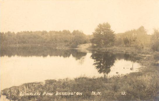 Winkley's Pond (or Winkley Pond), Barrington, New Hampshire; from a c. 1915 postcard published by Eastern Illustrating, Belfast, Maine.